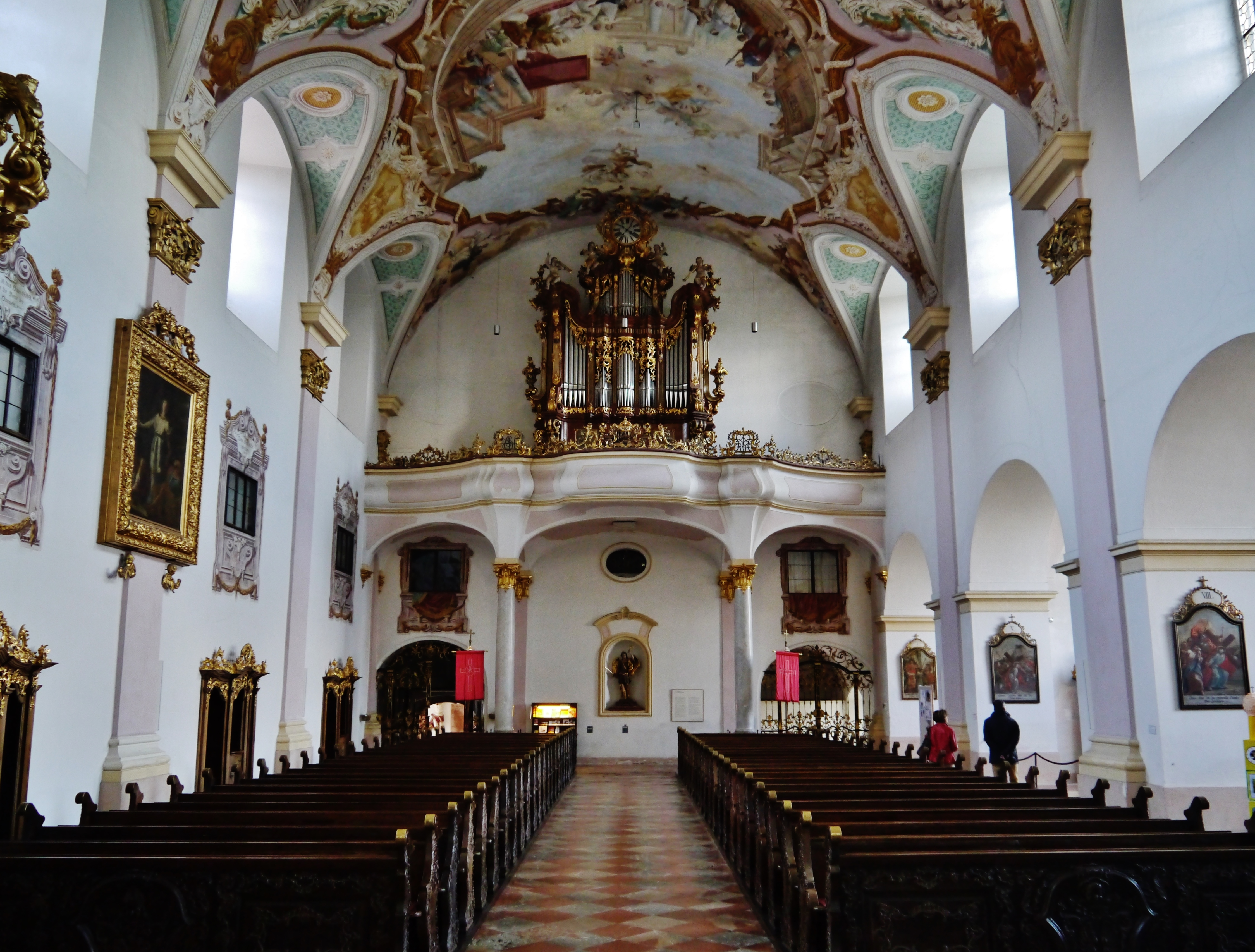 Nave of Reichersberg Abbey Church, Reichersberg, Upper Austria, Austria